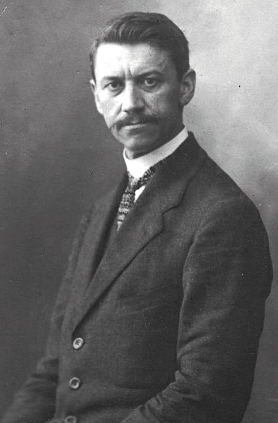 Romanian physician Francisc Iosif Rainer.